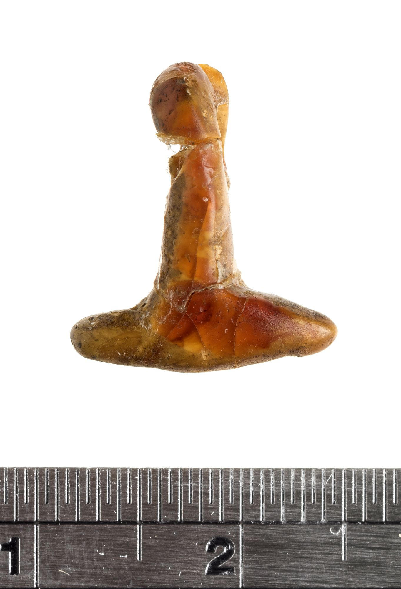 pendant, Thor´s hammer pendant, amber